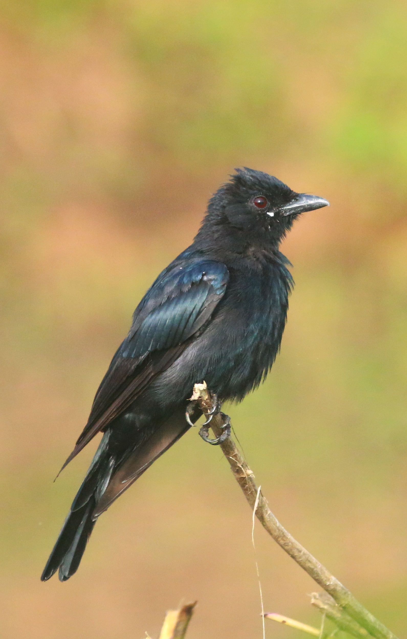 Black drongo juvenile